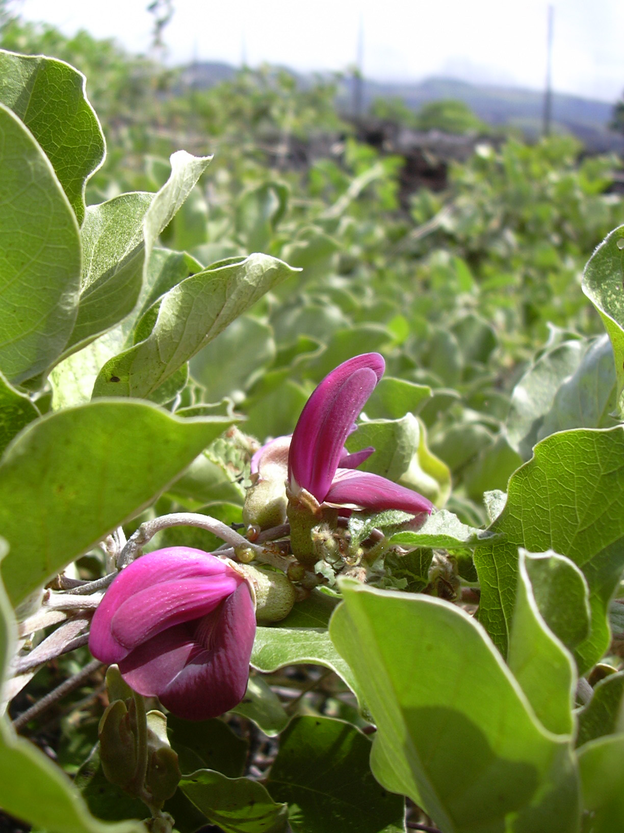 Canavalia pubescens (flowers). Location: Maui, LaPerouse